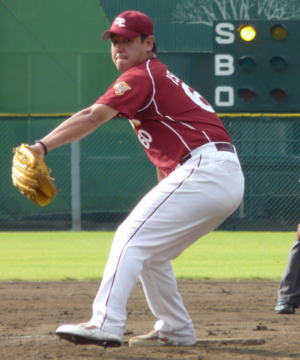 Satoru-Ishikawa